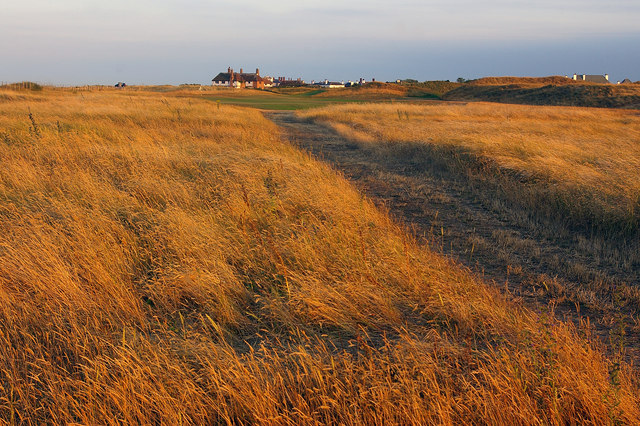 Looking towards the 5th Green, Royal St George's Golf Course. The Royal St George's Golf Course is one of the prime sites for the nationally rare Lizard Orchid (Himantoglossum hircinum) (see 1379059), some old stems of which are visible in the near grass. The photo was taken in late evening sunshine.